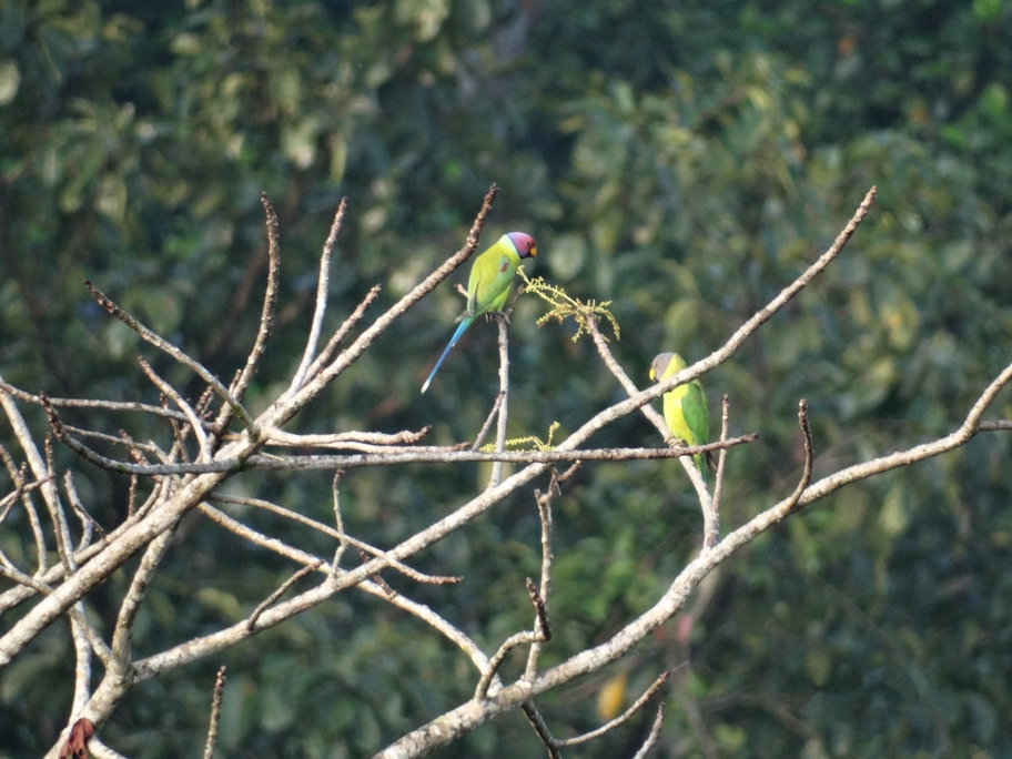 Blossom-headed Parakeet (Psittacula cyanocephala), taken from Thattekad Bird Sanctuary, Kerala, India.